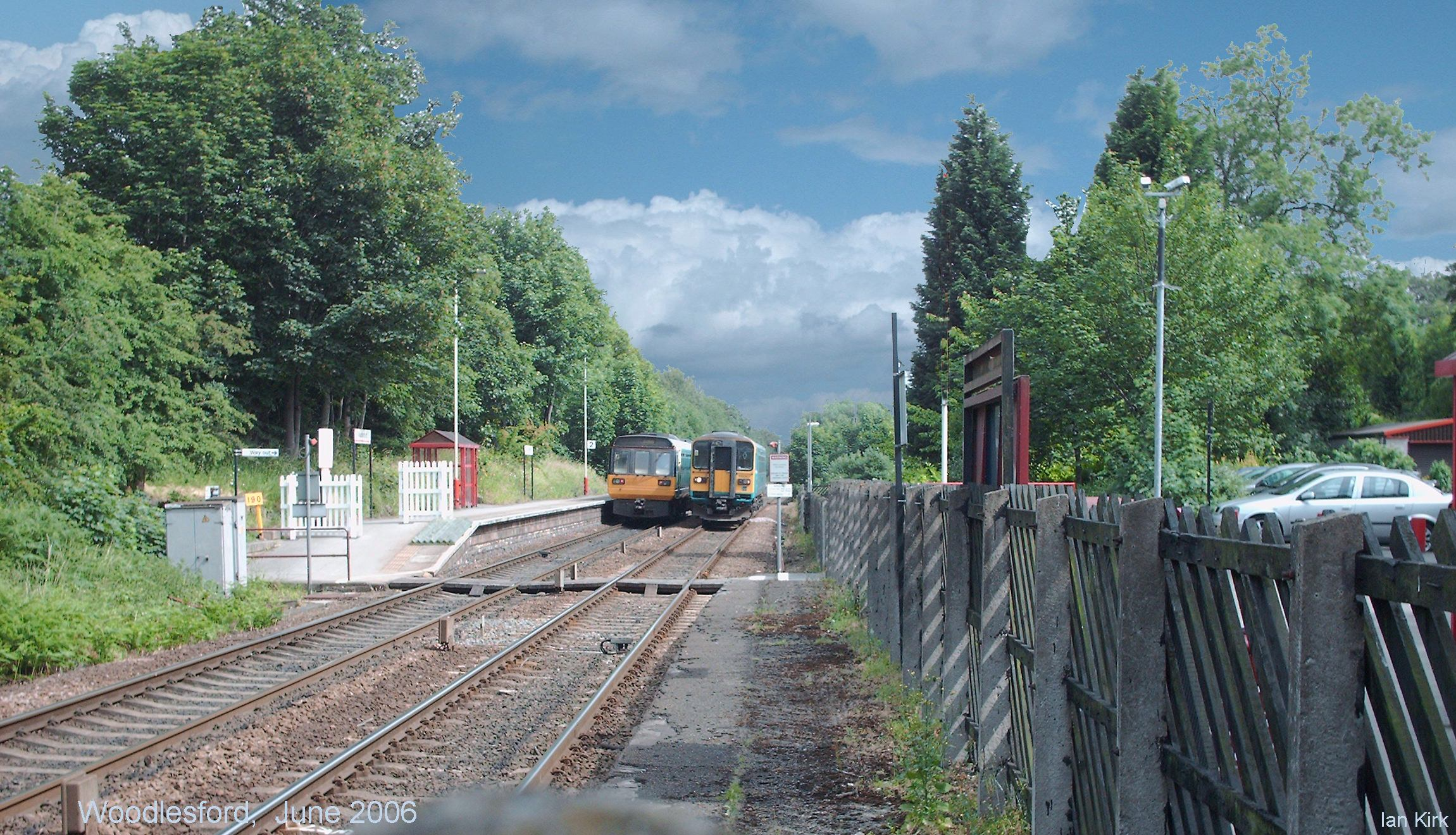 Woodlesford railway station, West Yorkshire, England. Platform 2. 142017 on left and 153307 on right.